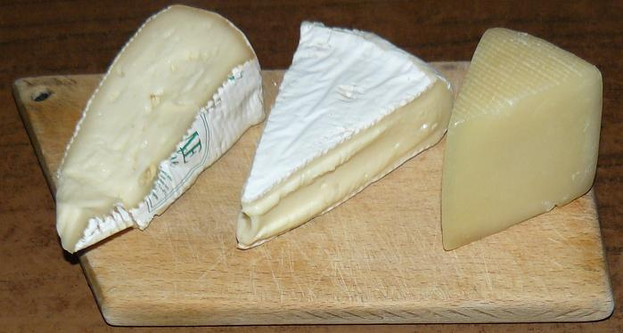 Cheese (from left): Tomme Blanche, Brie Paysan, Kashkaval